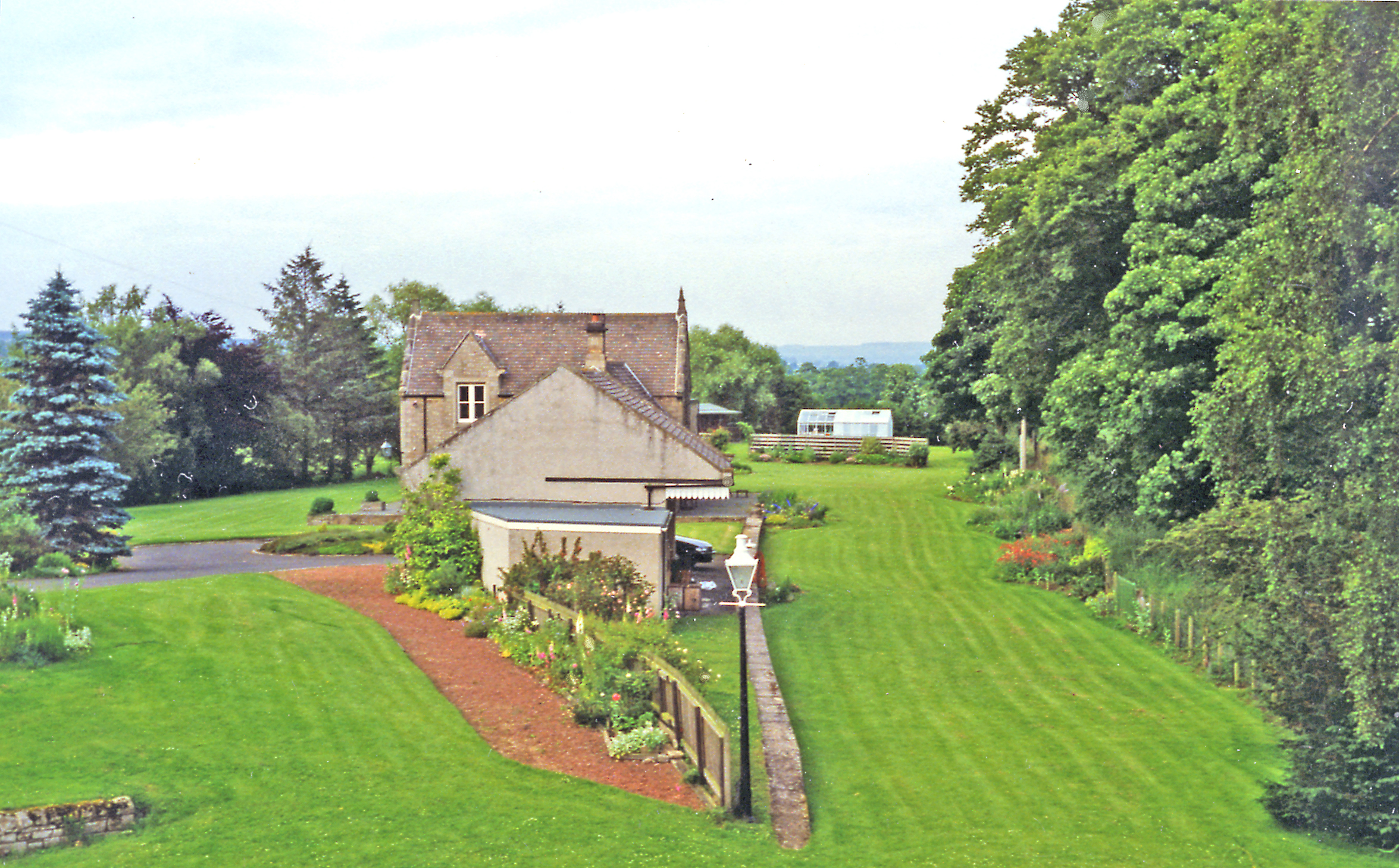 Former station at Humshaugh, 1997. View from the A6320 Low Brunton - Bellingham road, close to its bridge over the River North Tyne at Chollerford, also to the remins of the bridge on the Roman Wall at Chesters milecastle. The station remains, well preserved in private hands, was on the ex-NBR Border Counties line, the view being towards Bellingham, Reedsmouth and Riccarton Junction. The station closed to passengers 11/10/56, when the Newcastle - Hexham - Riccarton Junction service ceased, but goods continued until 1/9/58 (11/11/63 between Bellingham and Reedsmouth).